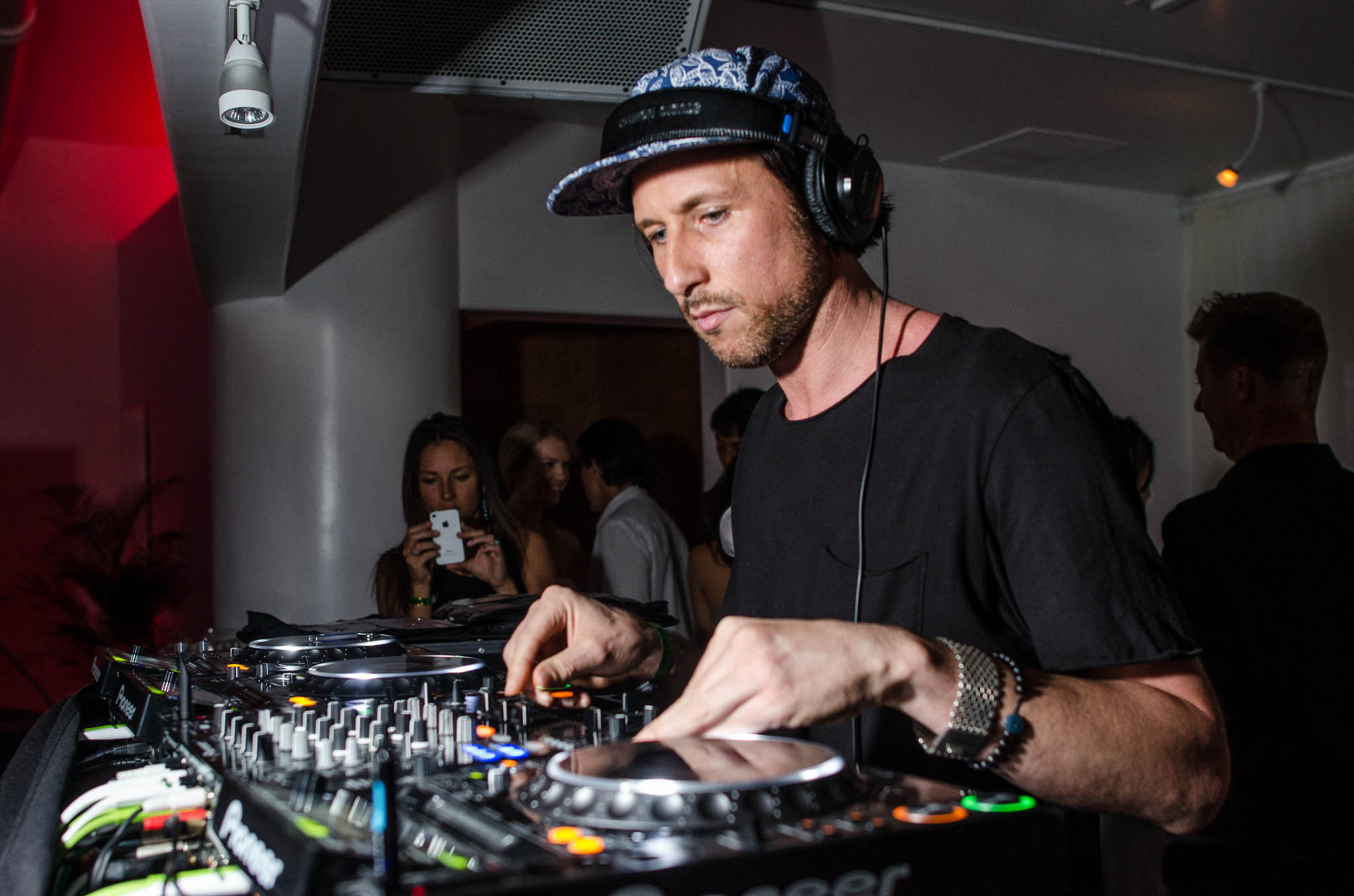 Miguel Migs performing at Eleven44 in Honolulu, Hawaii